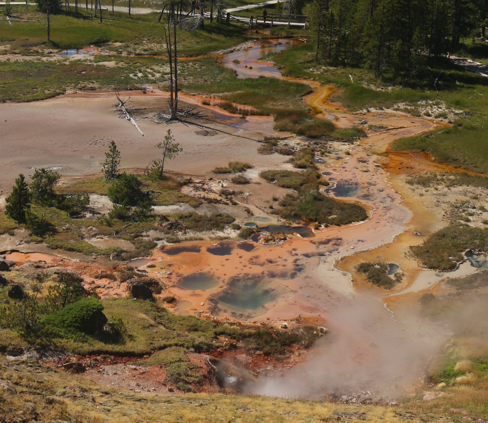 USA, Wyoming, Yellowstone National Park, Artists' Paintpoints, overview